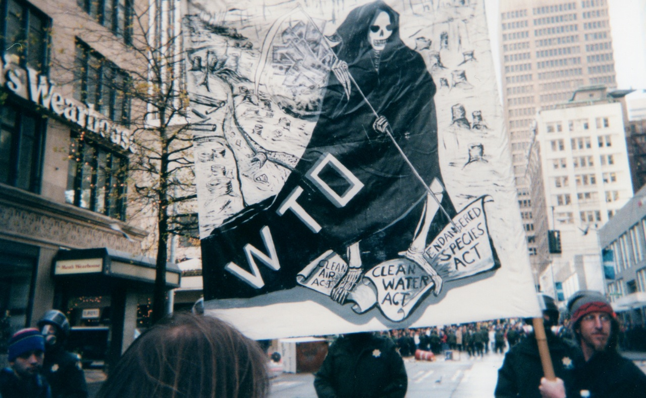 Protest sign used during the 1999 WTO protests in Seattle. Taken by me on the afternoon of November 30th.